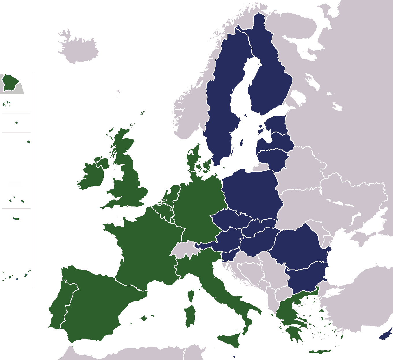 Map of the European Union, enlargements from 1993 to 2007